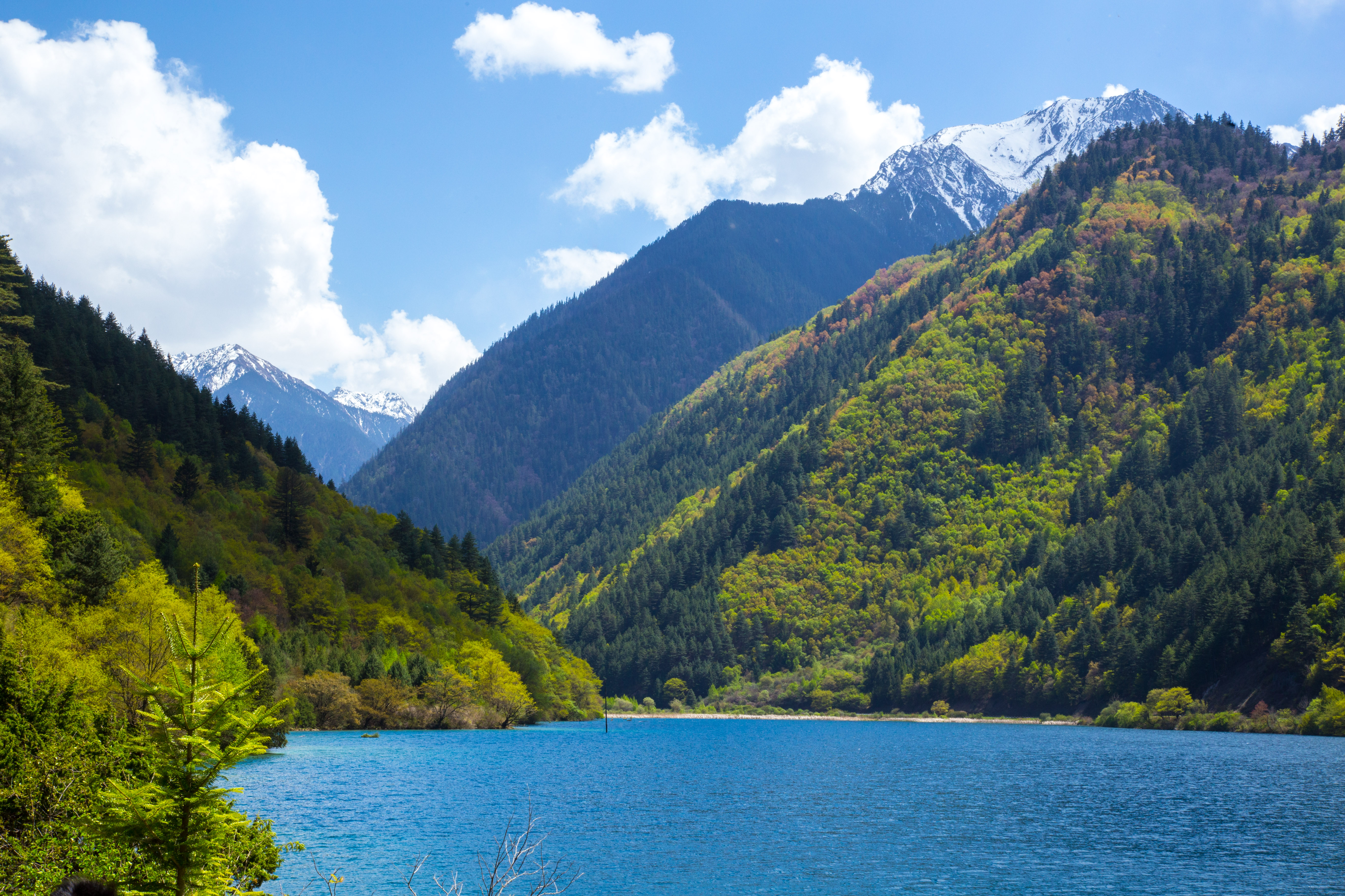 Rhinoceros Lake, Jiuzhaigou Valley